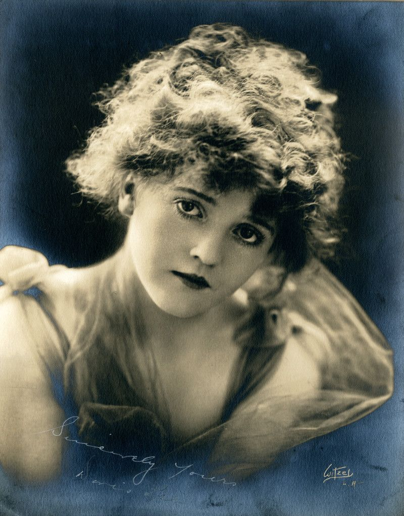 Portrait of American actress Doris May (1902–1984) by Albert Witzel (Witzel Studios, L.A.)